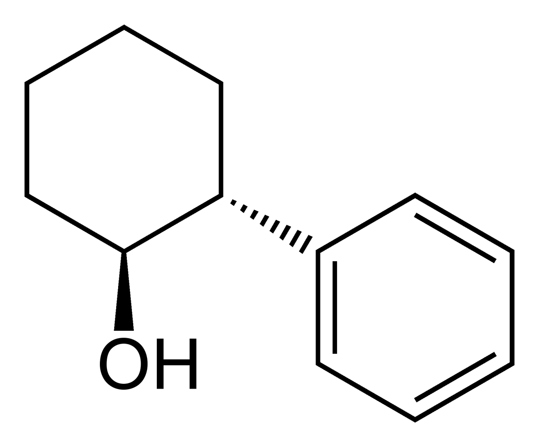 Skeletal formula of (1S,2R)-2-phenylcyclohexanol, C12H16O